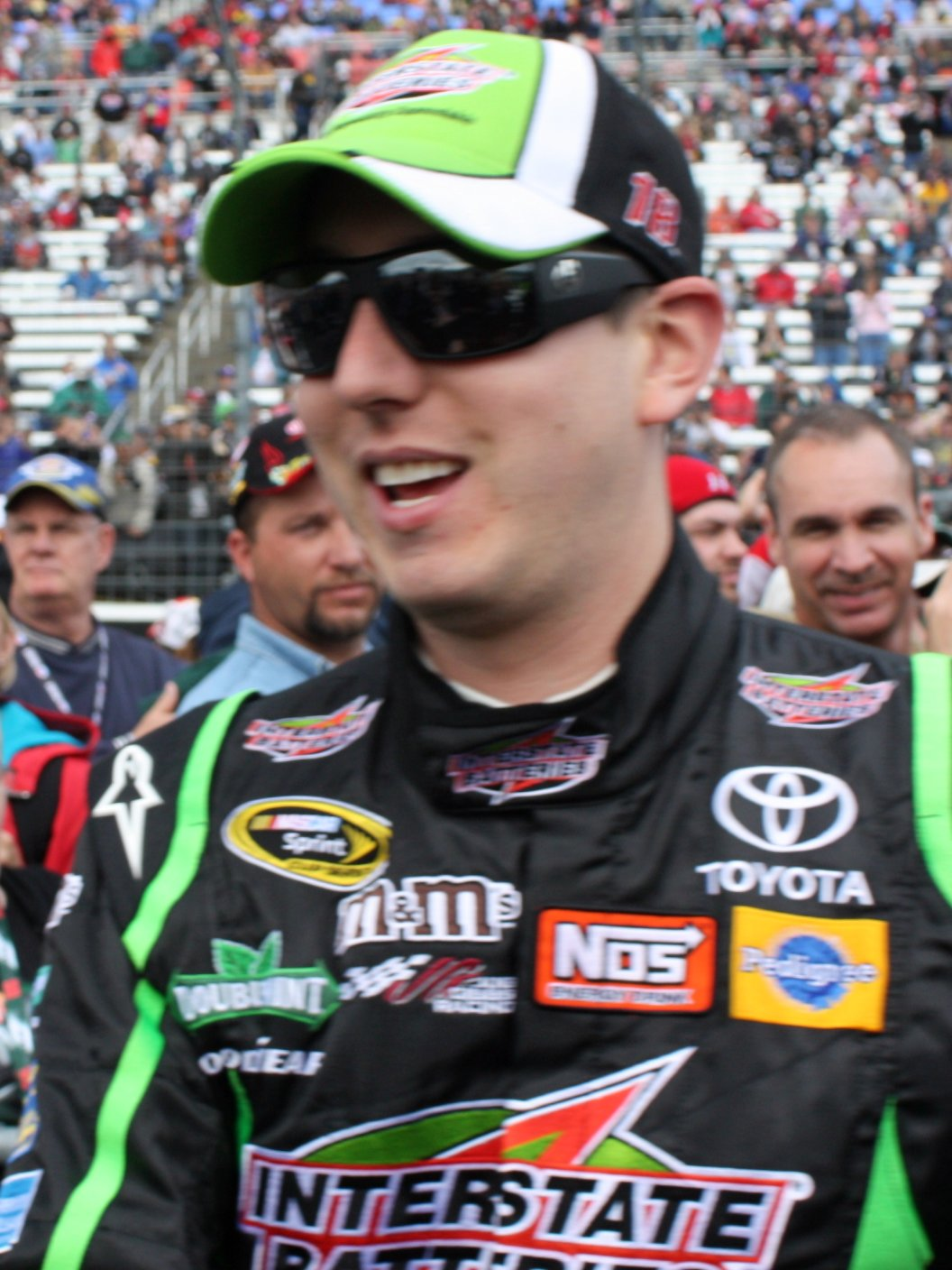 Kyle Busch on April 19, 2010